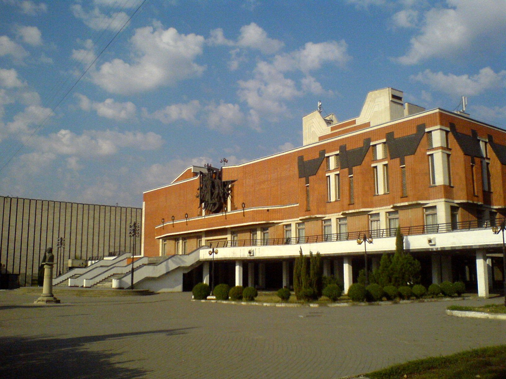 National Theatre. Vasile Alexandri founded May 16, 1957, first as a Moldovan company, in addition Russian theater who worked in Balti since 1947. May 16, 1990, became the "National Theatre Vasile Alexandri Balti. The theater building was inaugurated on this day, it has two rooms (large and small), and a circular stage. Architect - Yanina Halperin